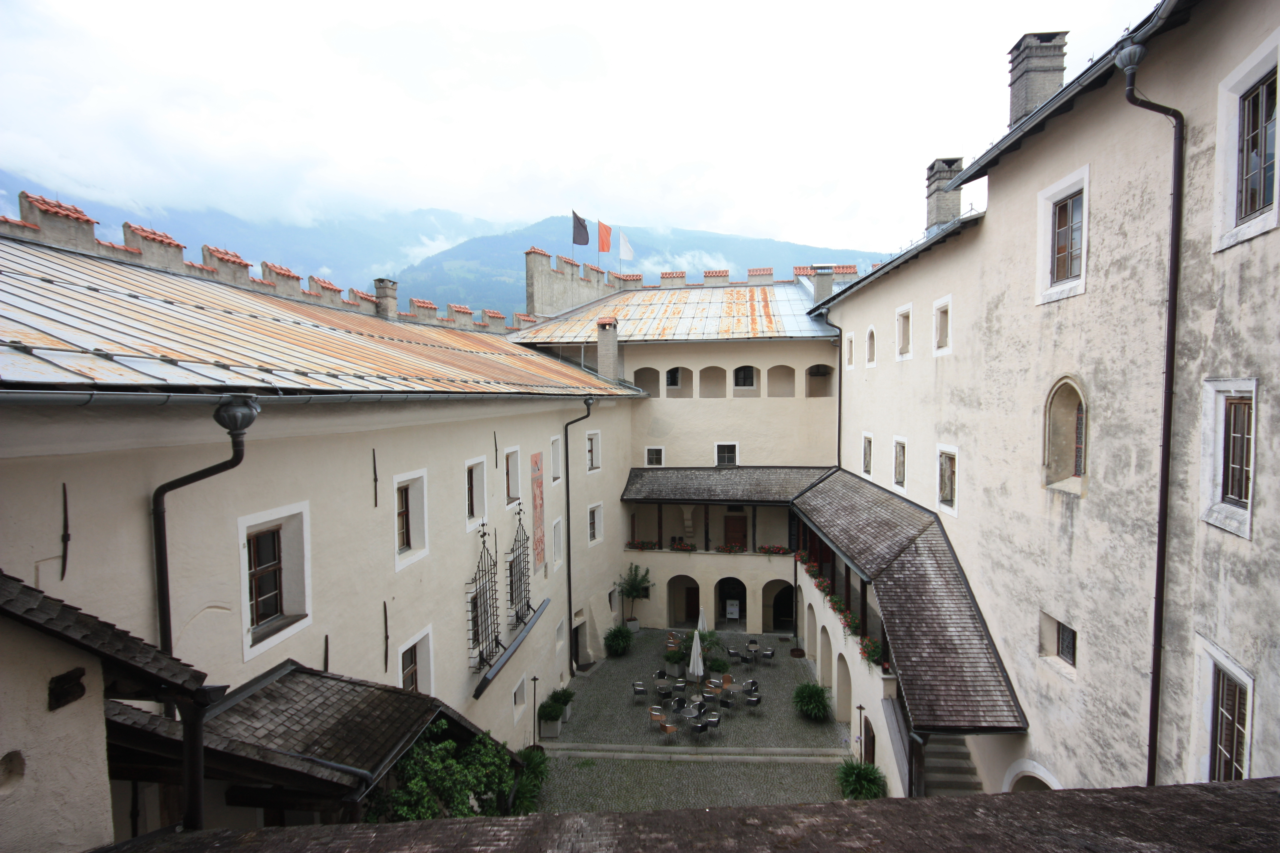 Bruck castle - court Locality:Schlossberg Community:Lienz